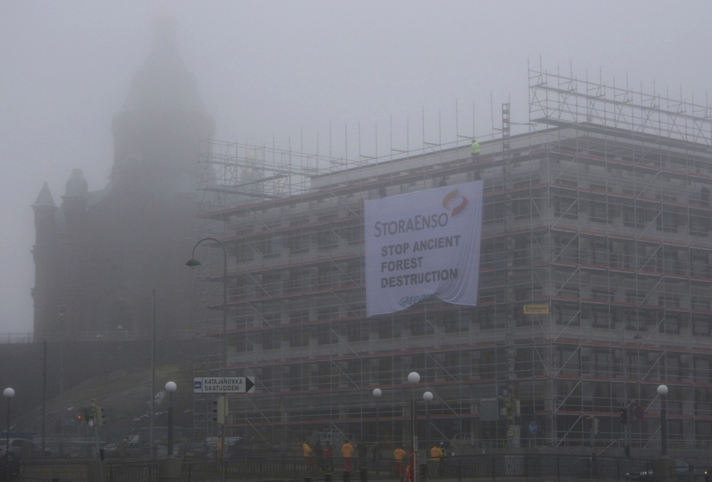 Greenpeace banner in foggy weather hanging in Helsinki, Finland